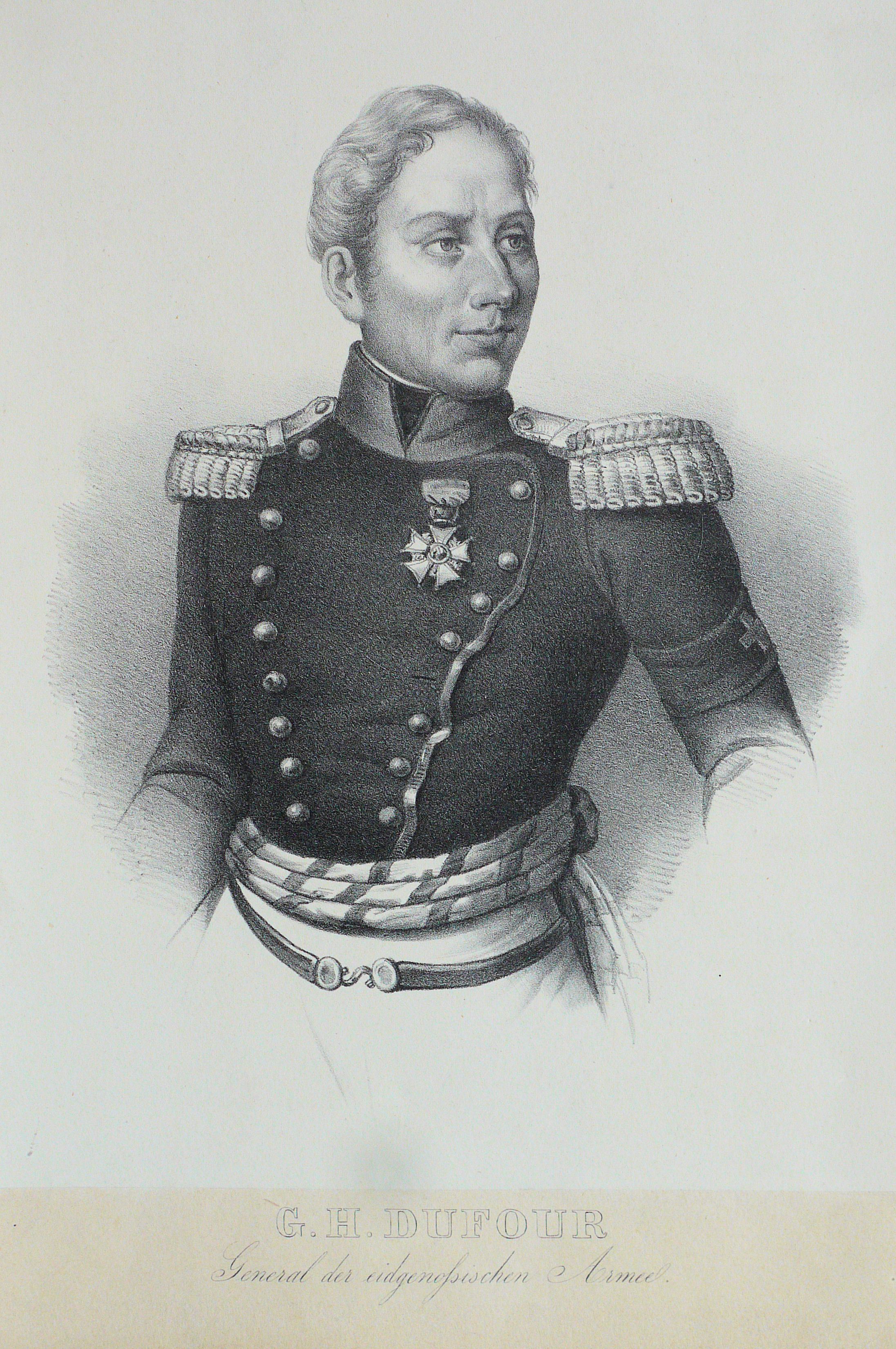 Guillaume-Henri Dufour (1787-1875), schweizer General, Humanist, Kartograf. Anonyme Lithographie um 1830